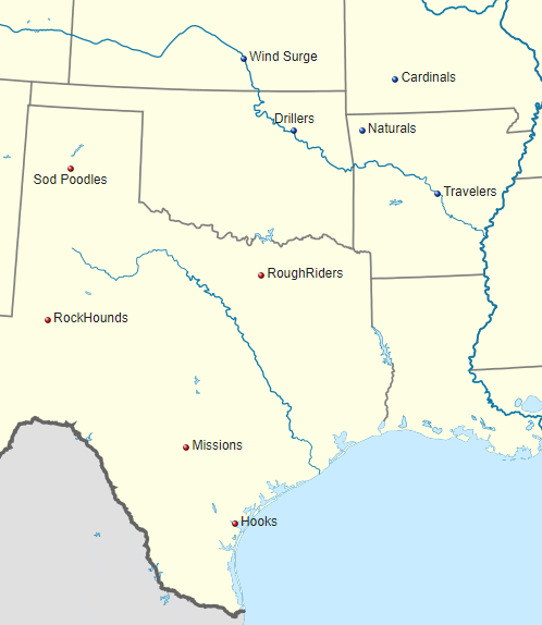 Map showing the locations of the baseball teams in the Texas League